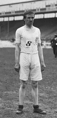 Members of the British athletic team at the 1908 London Olympics, William Coales.